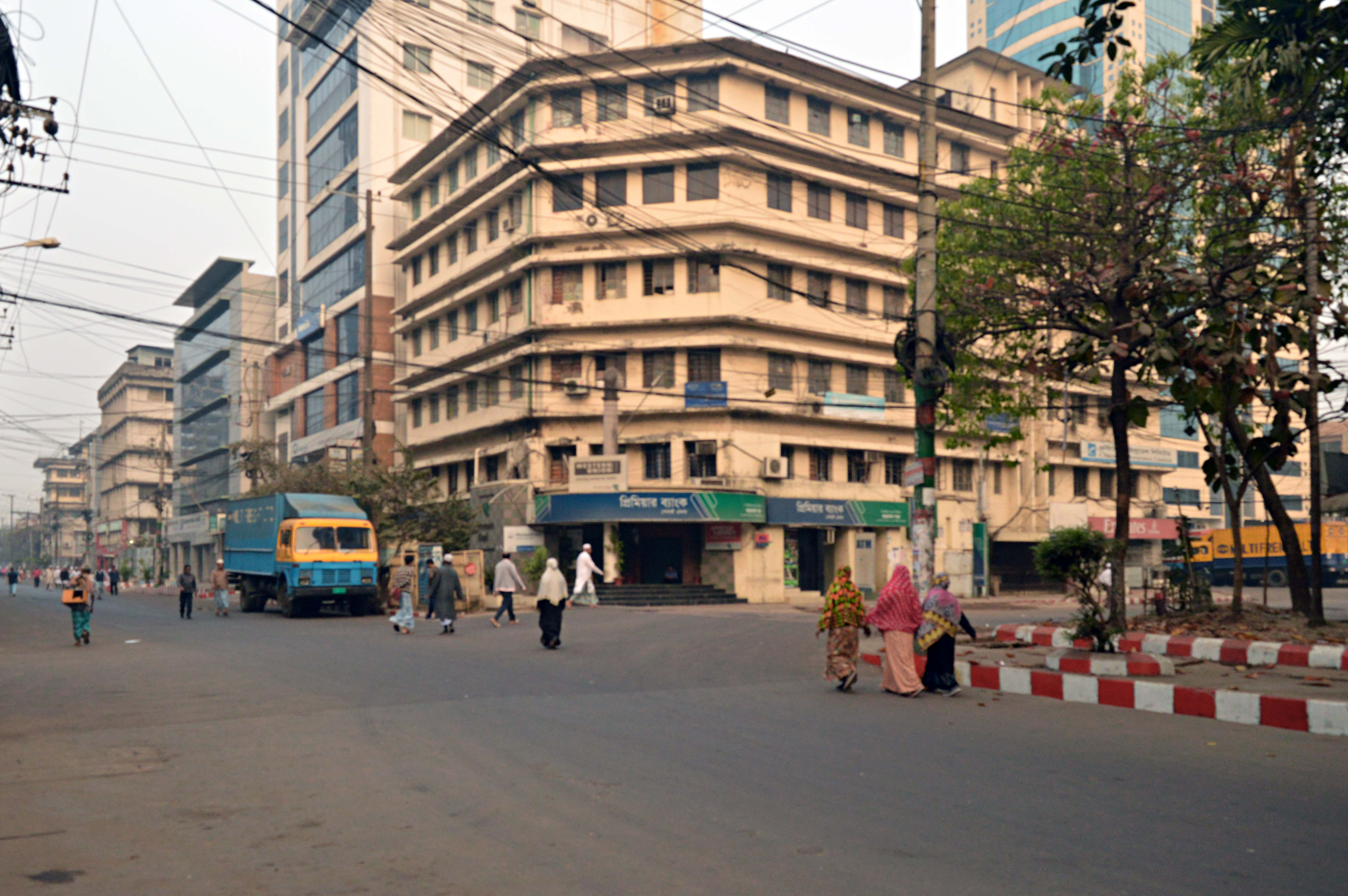 Premier Bank Limited, Al-Islam Chamber, 91 Commerce College Road, Agrabad C/A, Chittagong.